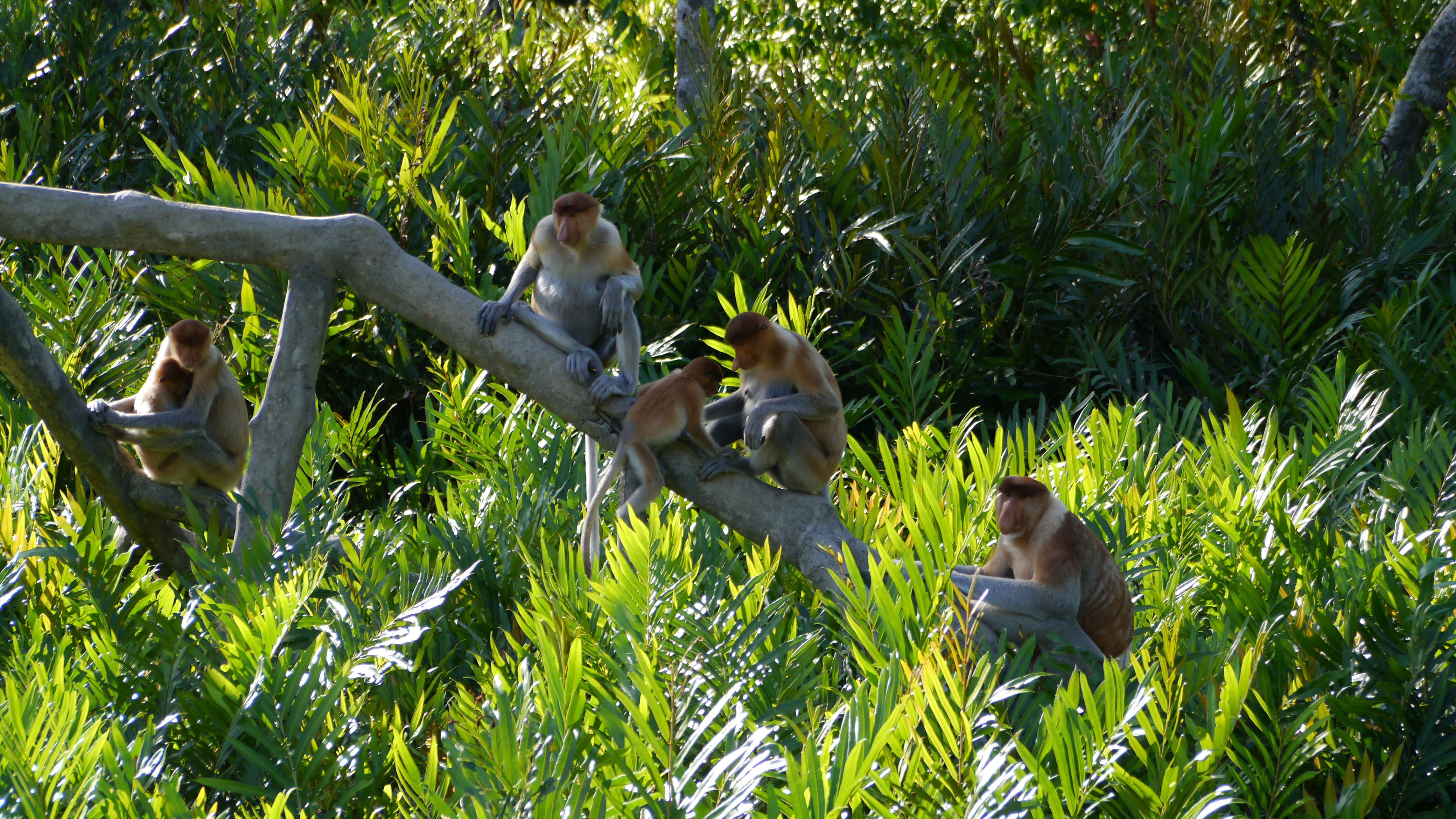 Proboscis Monkeys group including males and females. At Labuk Bay Proboscis Monkeys Sanctaury. Sepilok, Sabah, Malaysia. Borneo.